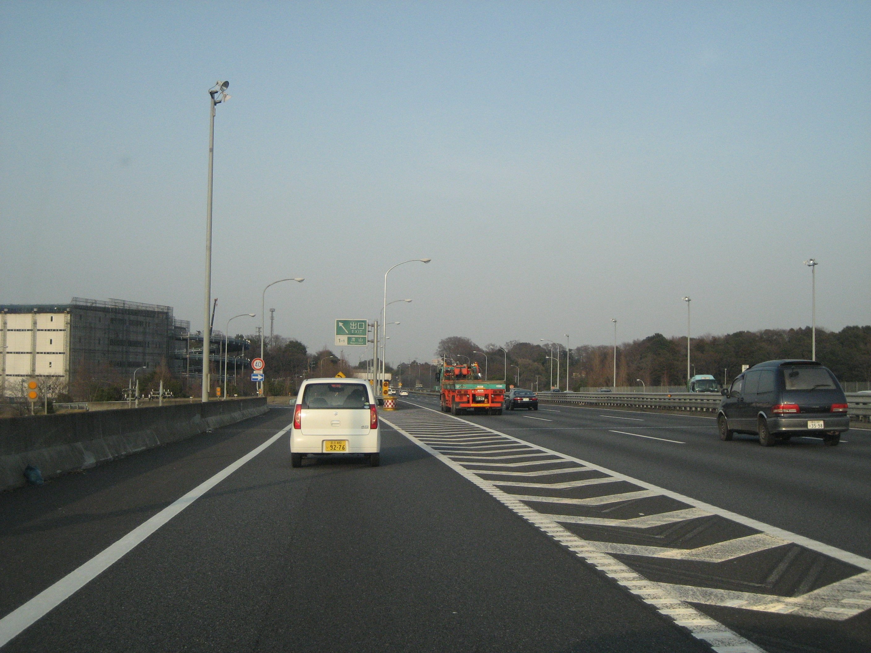 Nagareyama Interchange on the Joban Expressway outbound line